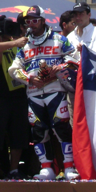 Dakar 2013 Finish and Award Ceremony, Santiago, Chile. Francisco López holding the third place award.